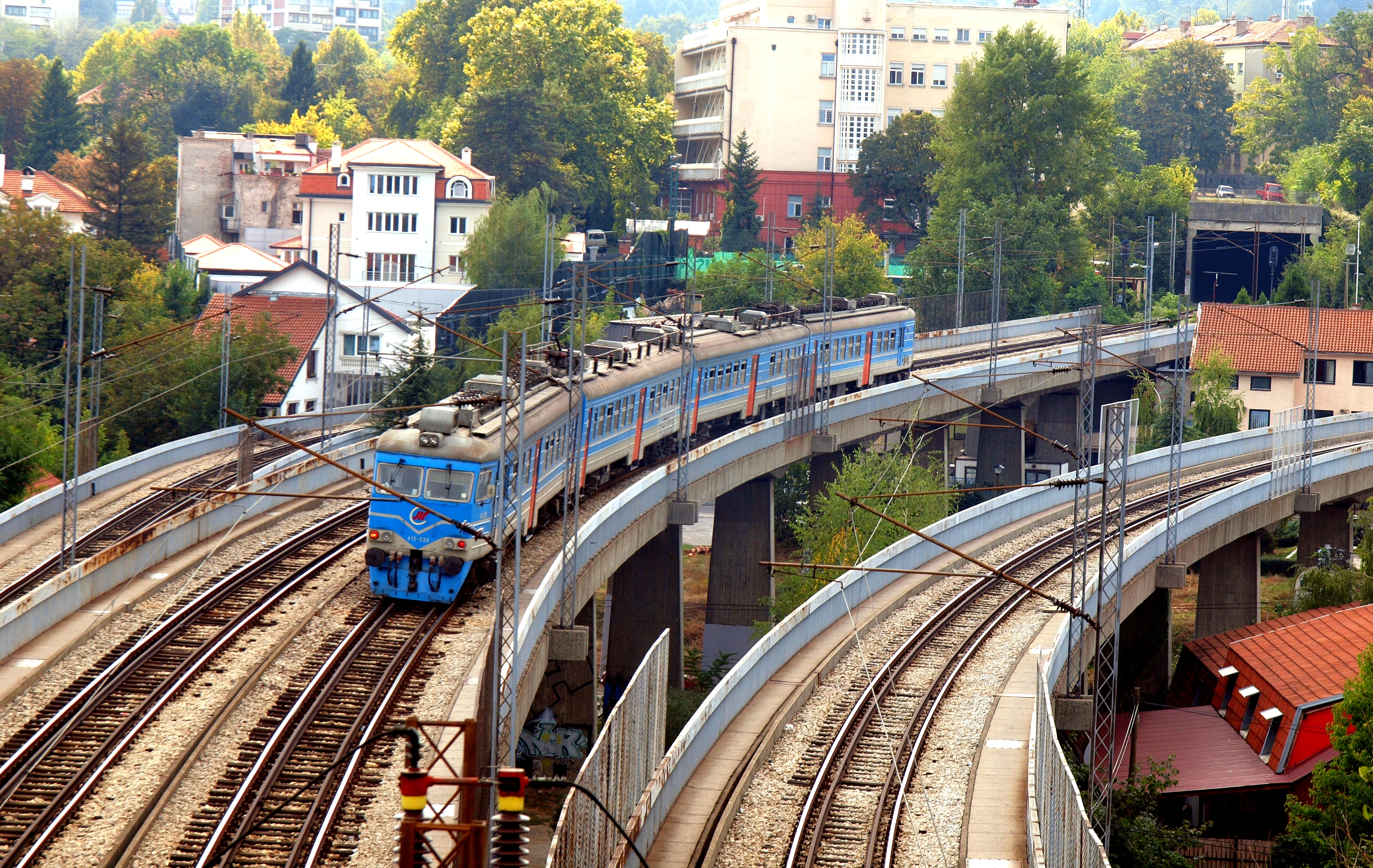 Railway bridges in the Belgrade railway junction network